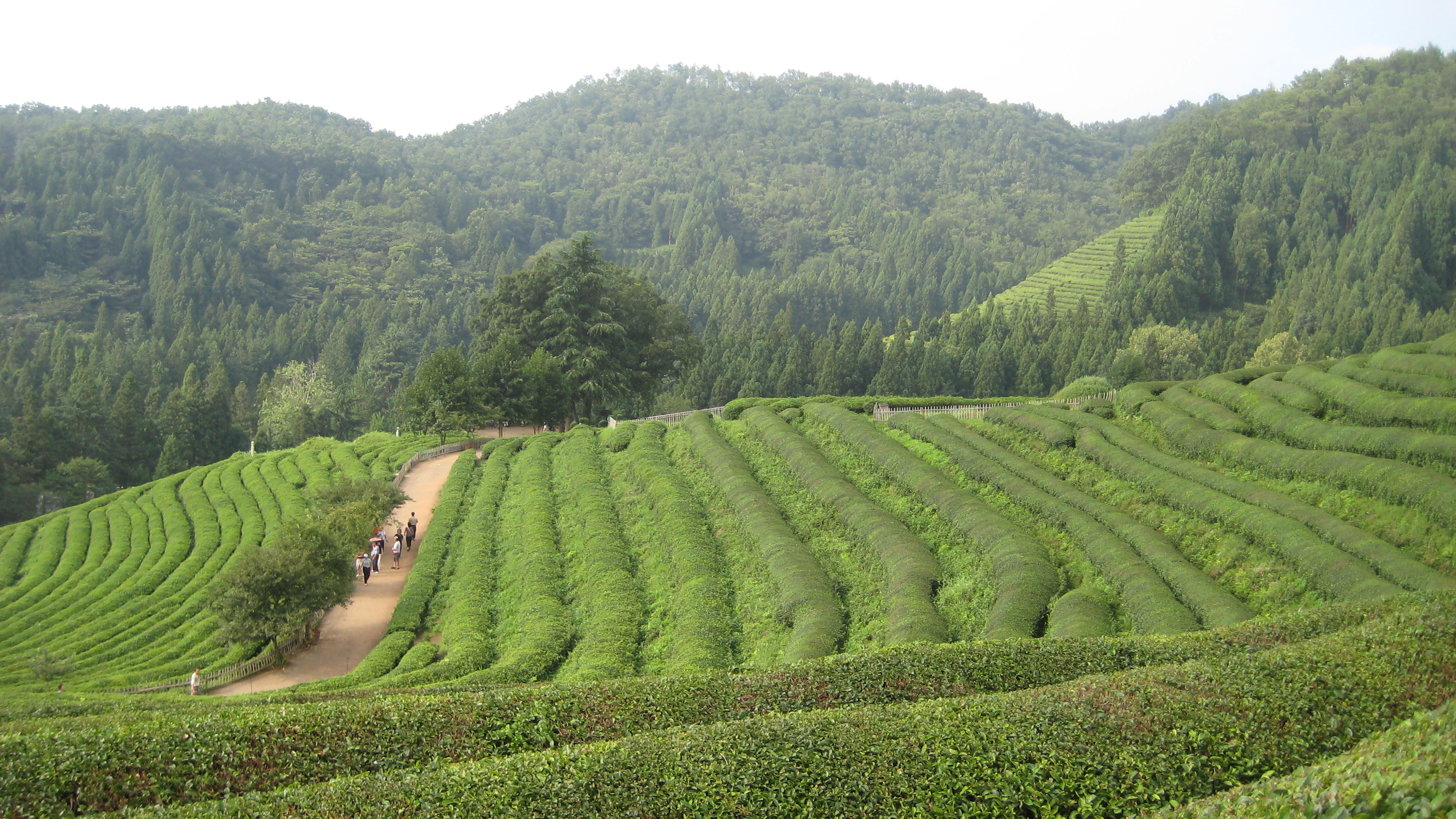 Green tea field in Boseong, Jeollanam-do South Korea